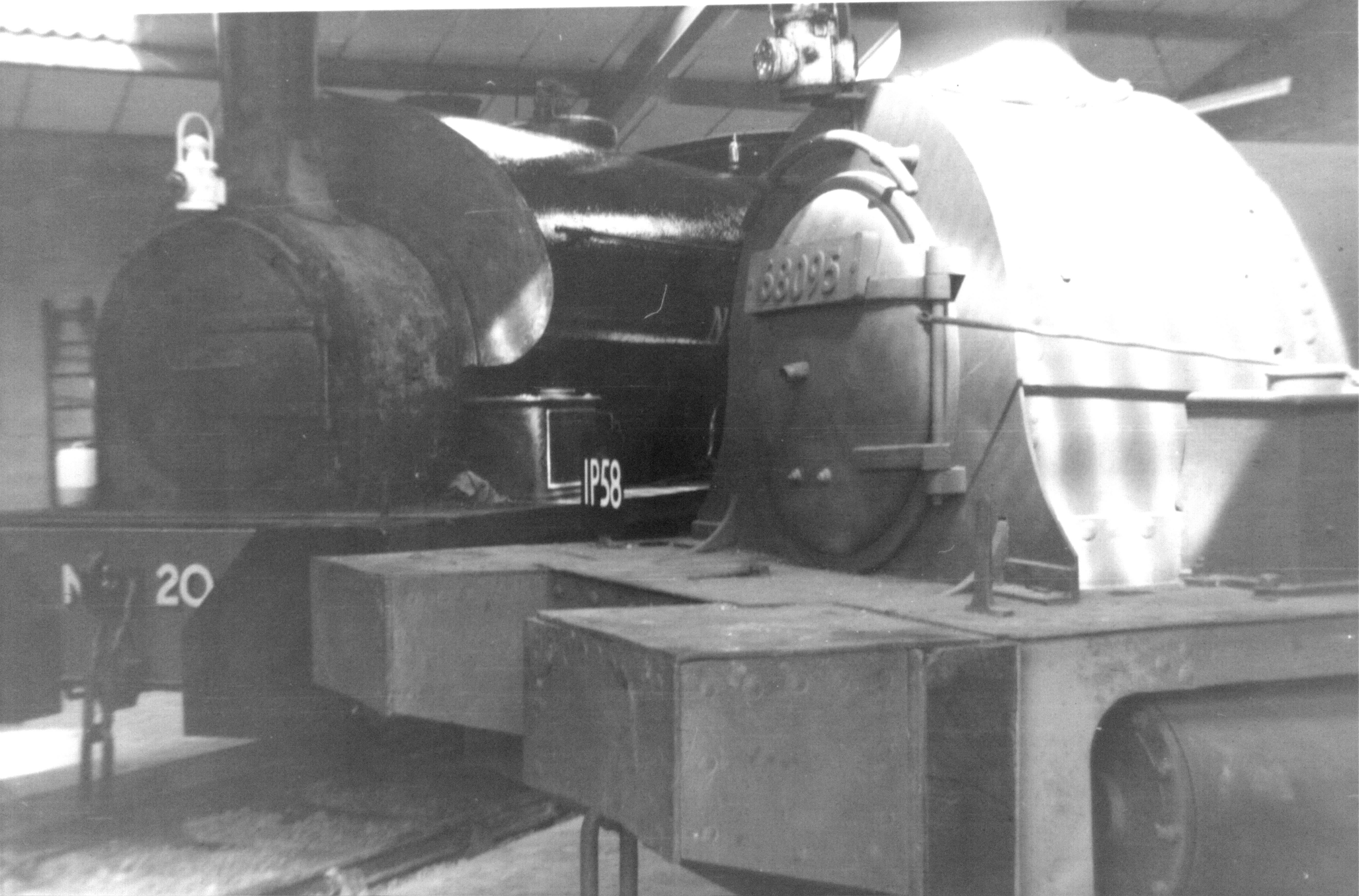 Scanned from print, negative long lost. Taken on Coronet Clipper 120 camera.